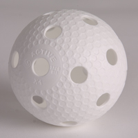 A floorball